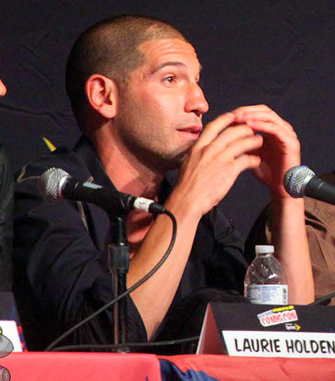 Jon Bernthal at the New York Comic Con & Anime Festival 2011.